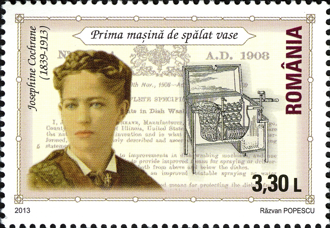 Stamps of Romania, 2013. Josephine Cochrane